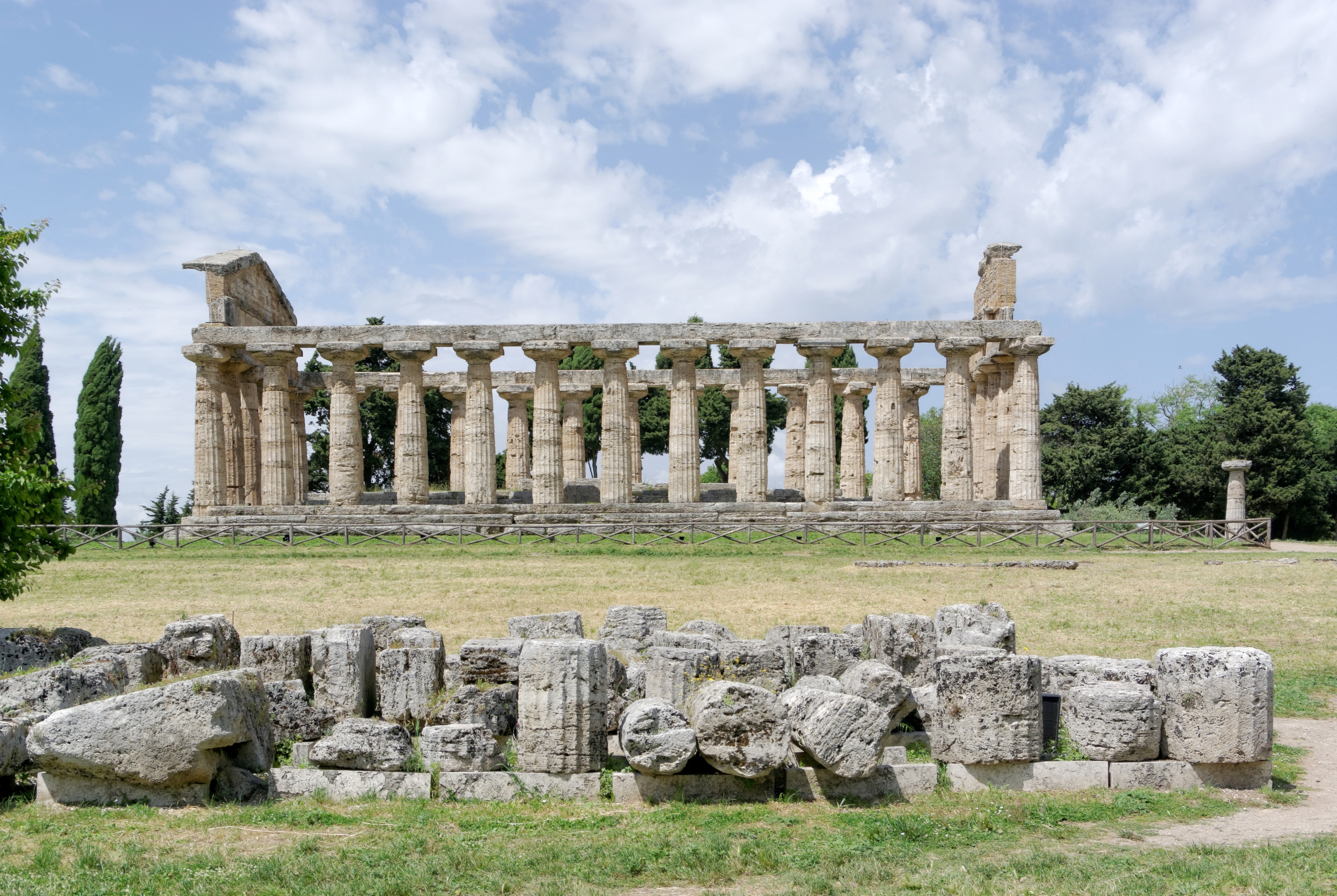 Italy, Paestum, Temple of Athena